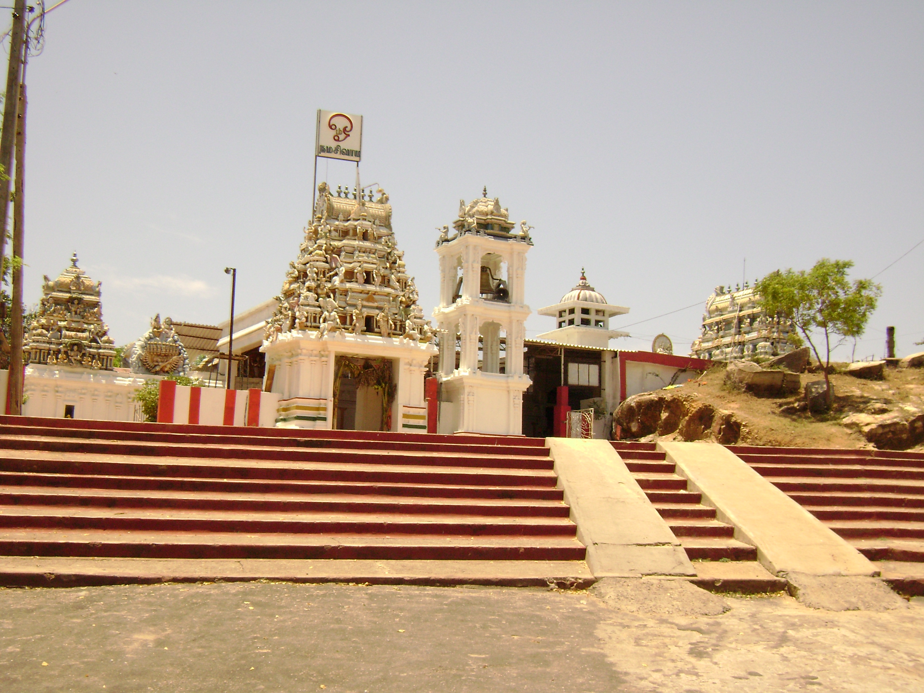 This is the front site view of Thirukoneswaram Temple, Trincomalee